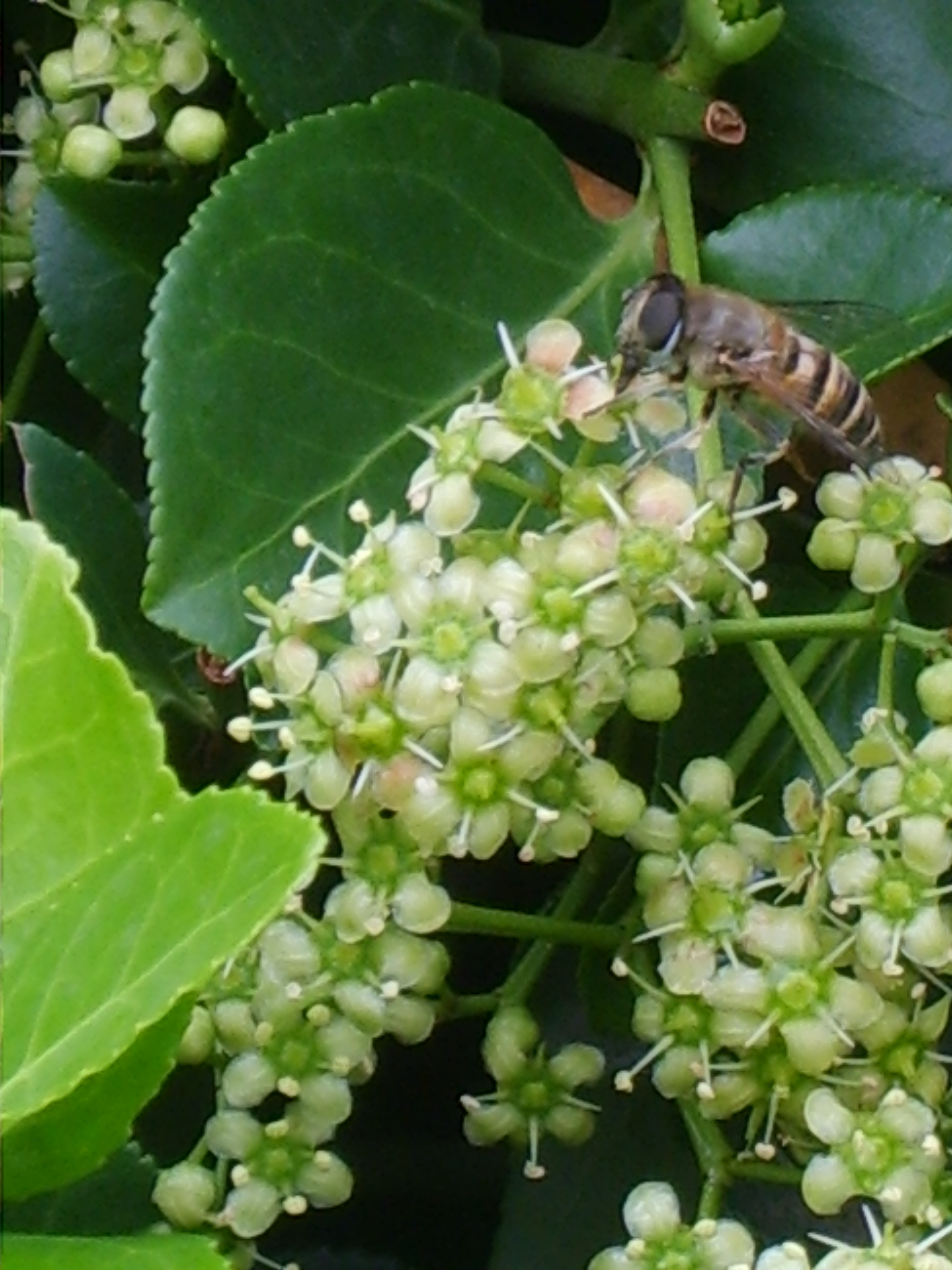 Euonymus japonicus in Bupyung, Korea